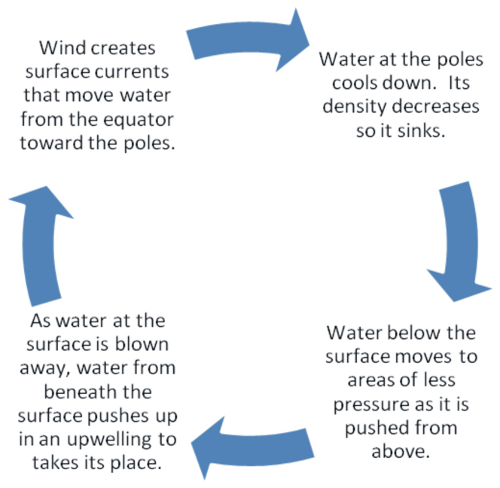 Surface and deep currents together form convection currents that circulate water from one place to another and back again. A water particle in the convection cycle can take 1600 years to complete the cycle.